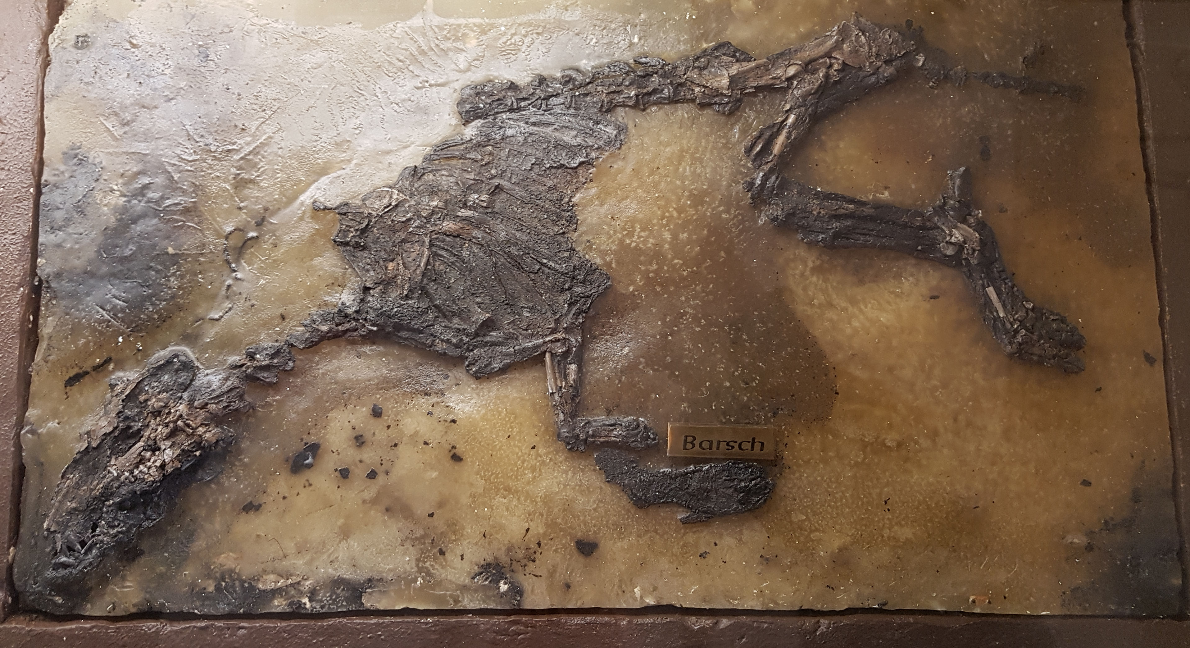 skeleton of Amphirhagatherium from the Geiseltal, Germany, Middle Eocene; took the picture in the Geiseltalmuseum, Halle (Saxony-Anhalt)